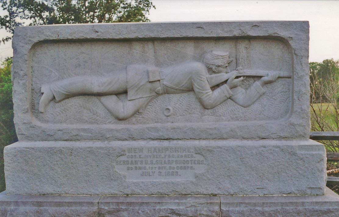 New Hampshire Sharpshooters Monument, Gettysburg battlefield ca. 1886